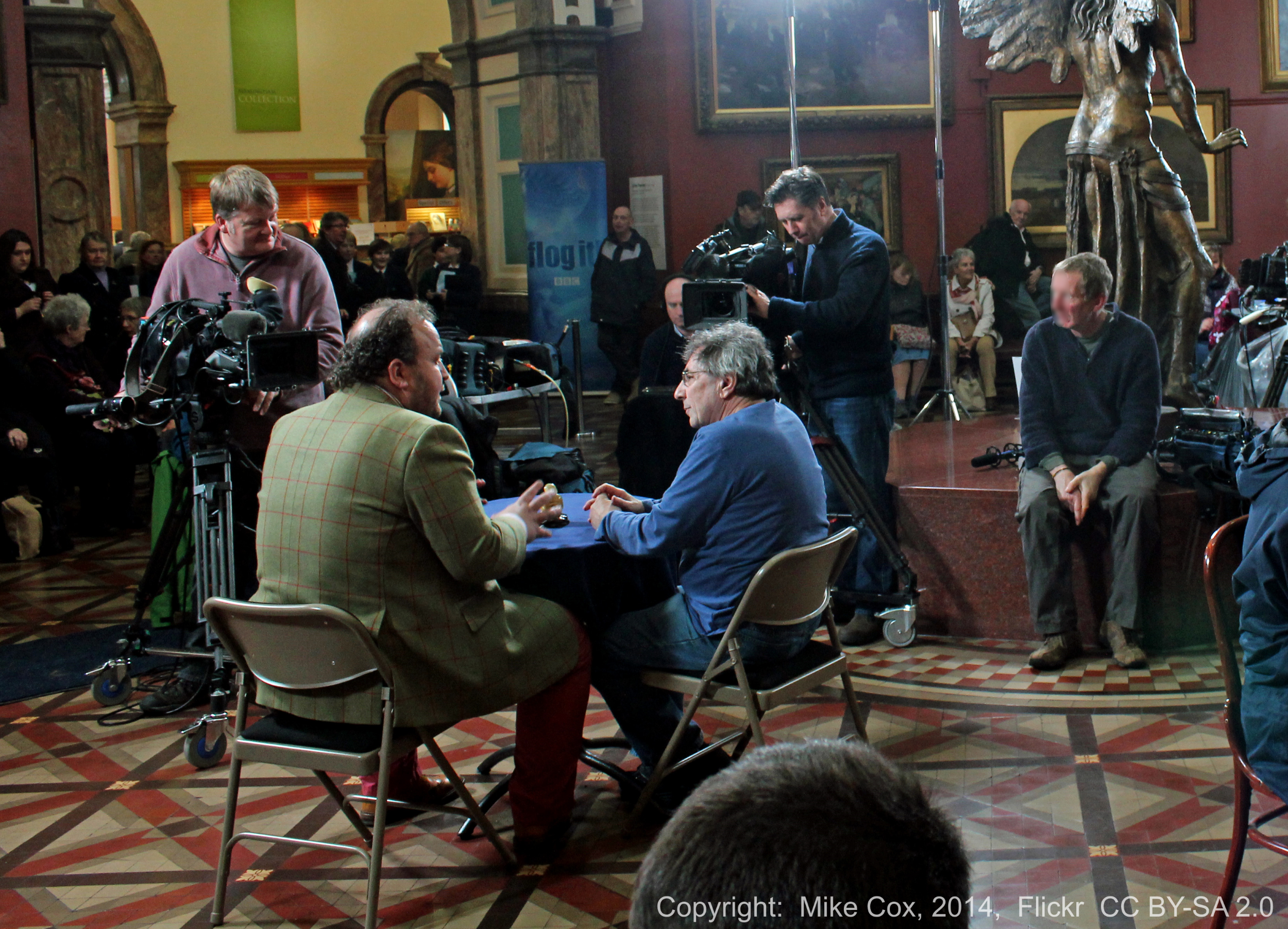 BBC TV recording of Flog It!, at Birmingham Museum and Art Gallery, Birmingham, UK, on 16th January 2014. James Lewis (back to camera), antiques expert, filmed giving a valuation.